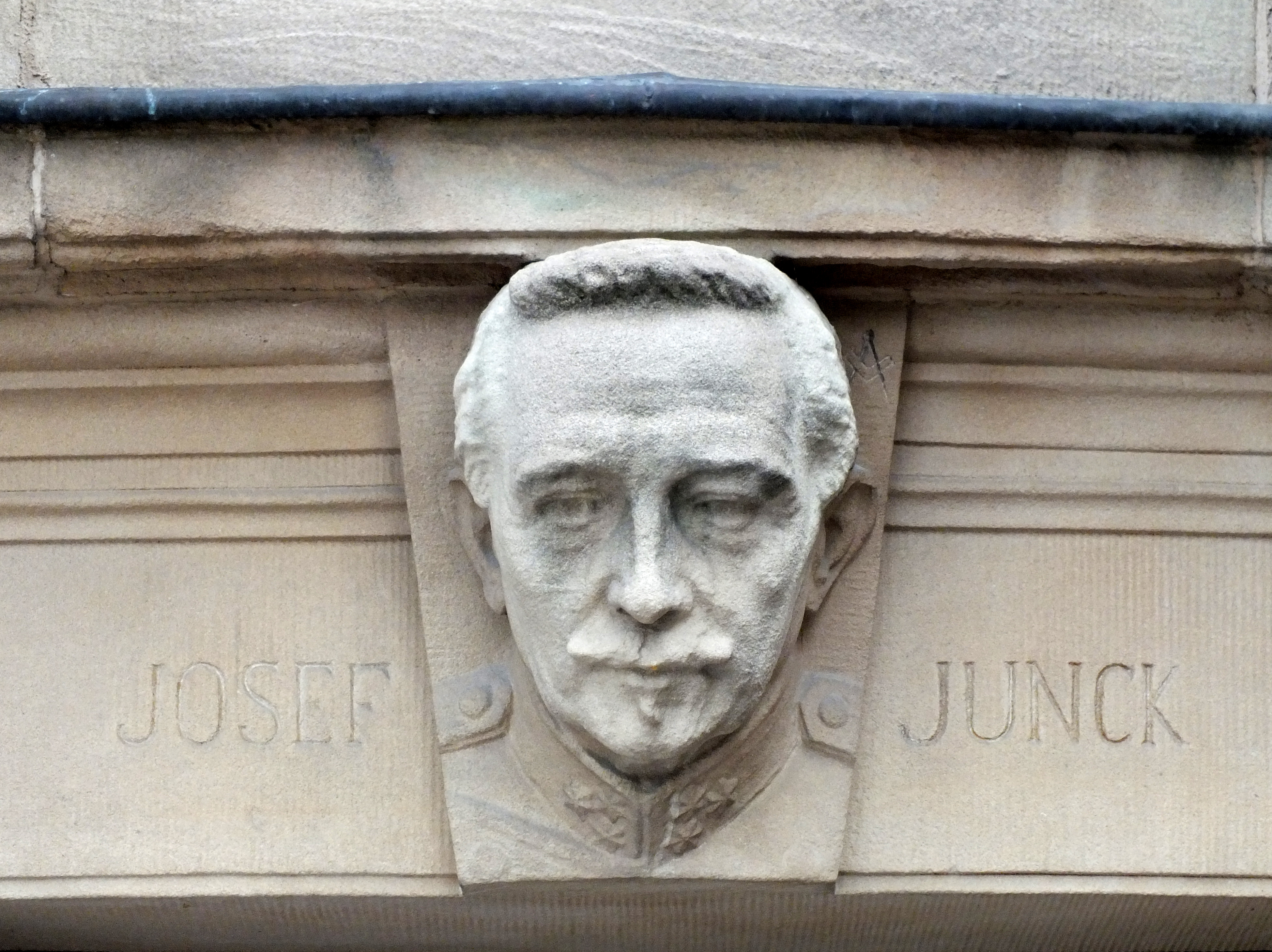 Joseph Junck (1839-1922), bust by Pierre Federspiel (1864-1924), on the Luxembourg railway station.